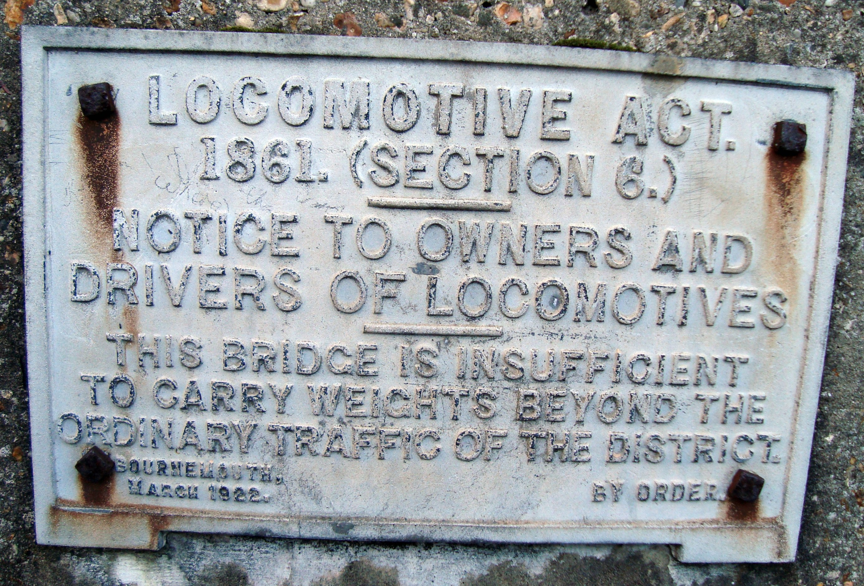 Bournemouth ... St. Stephen's Road - LOCOMOTIVE ACT.